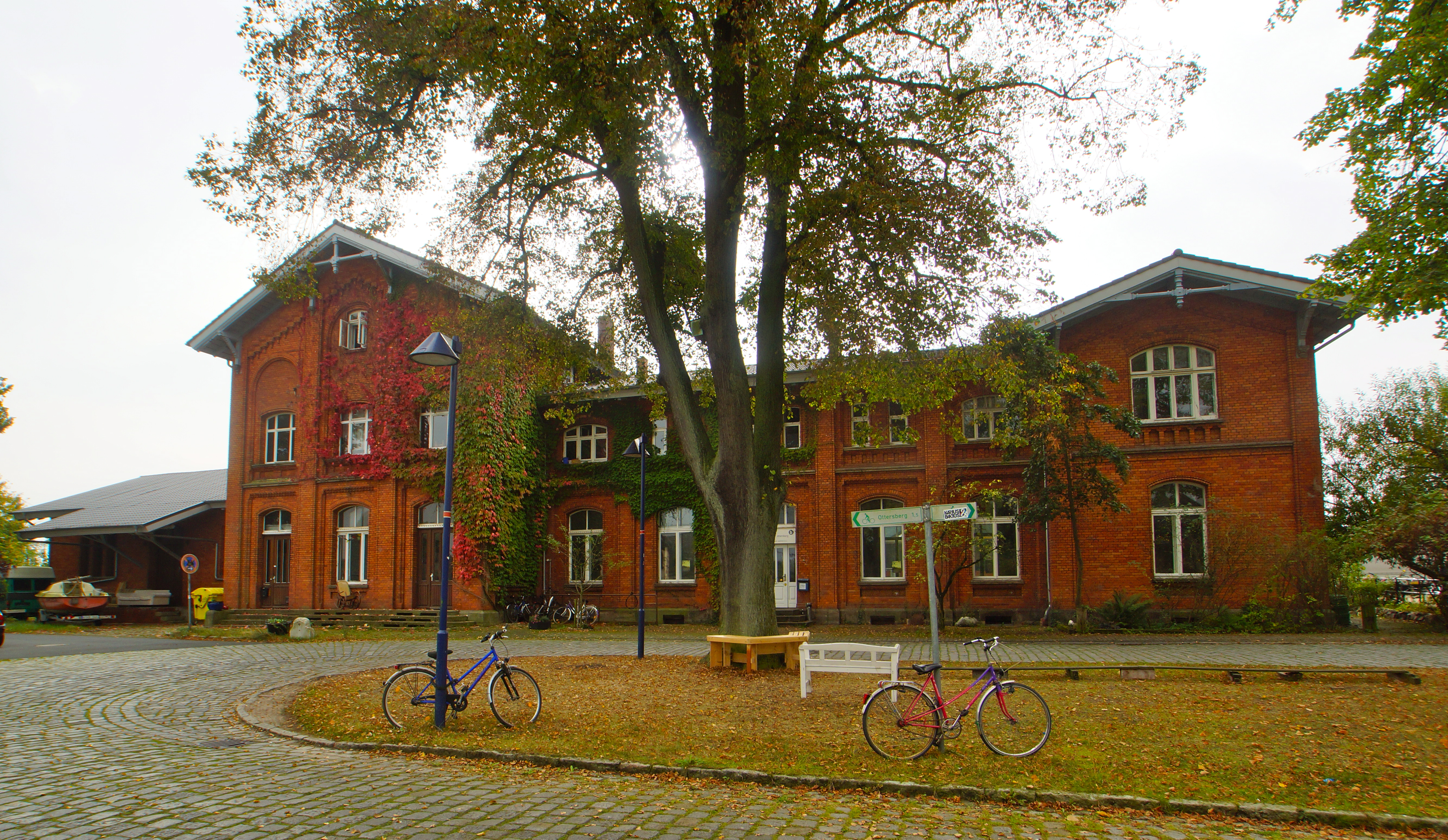 Ottersberg, Germany: North side of the Railway Station